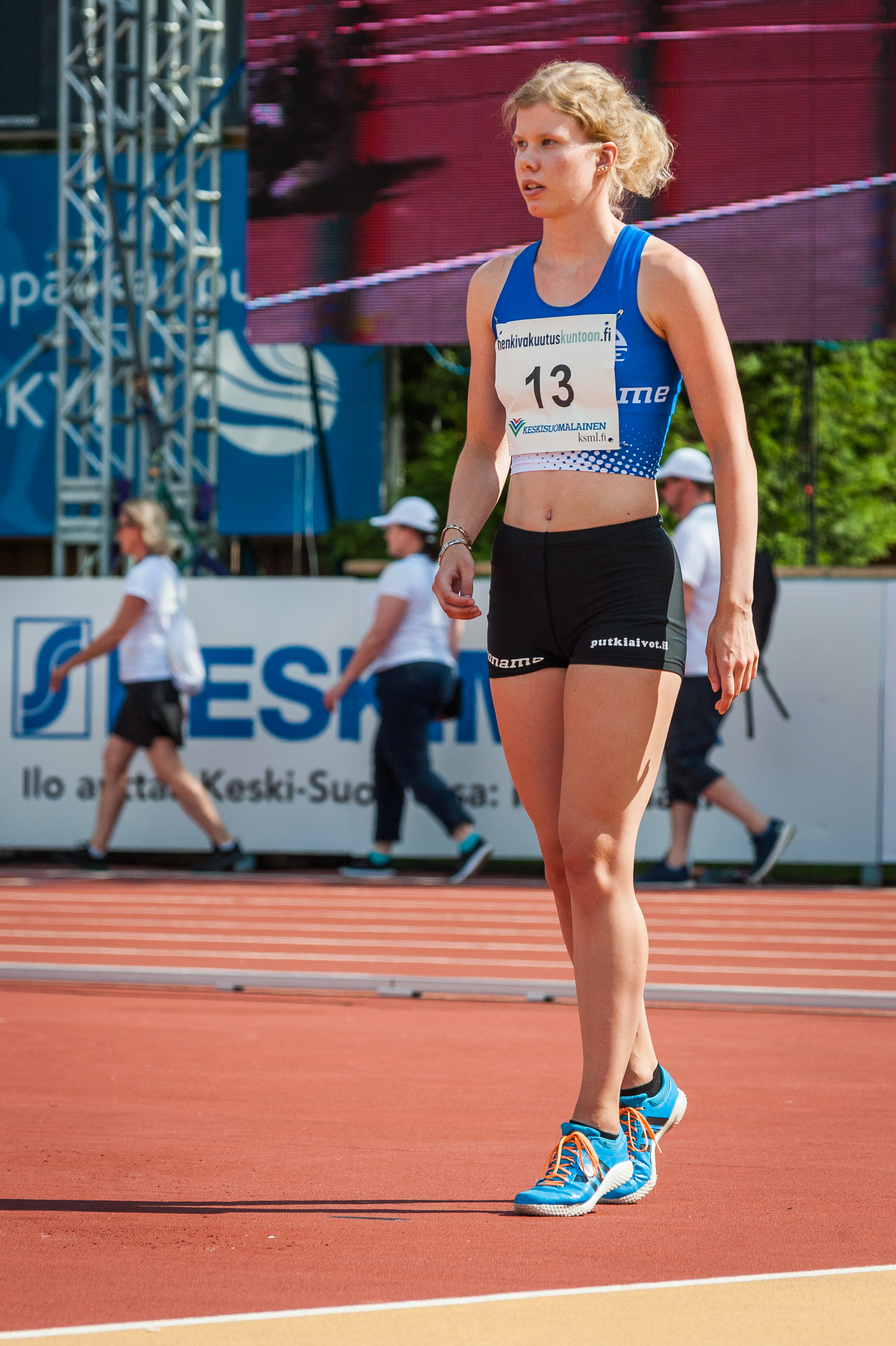 Women's high jump competition at the 2018 Kalevan Kisat, the Finnish championships in athletics, in Jyväskylä, Finland.